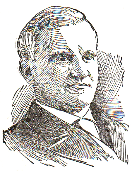 Drawing of Francis Parkman.